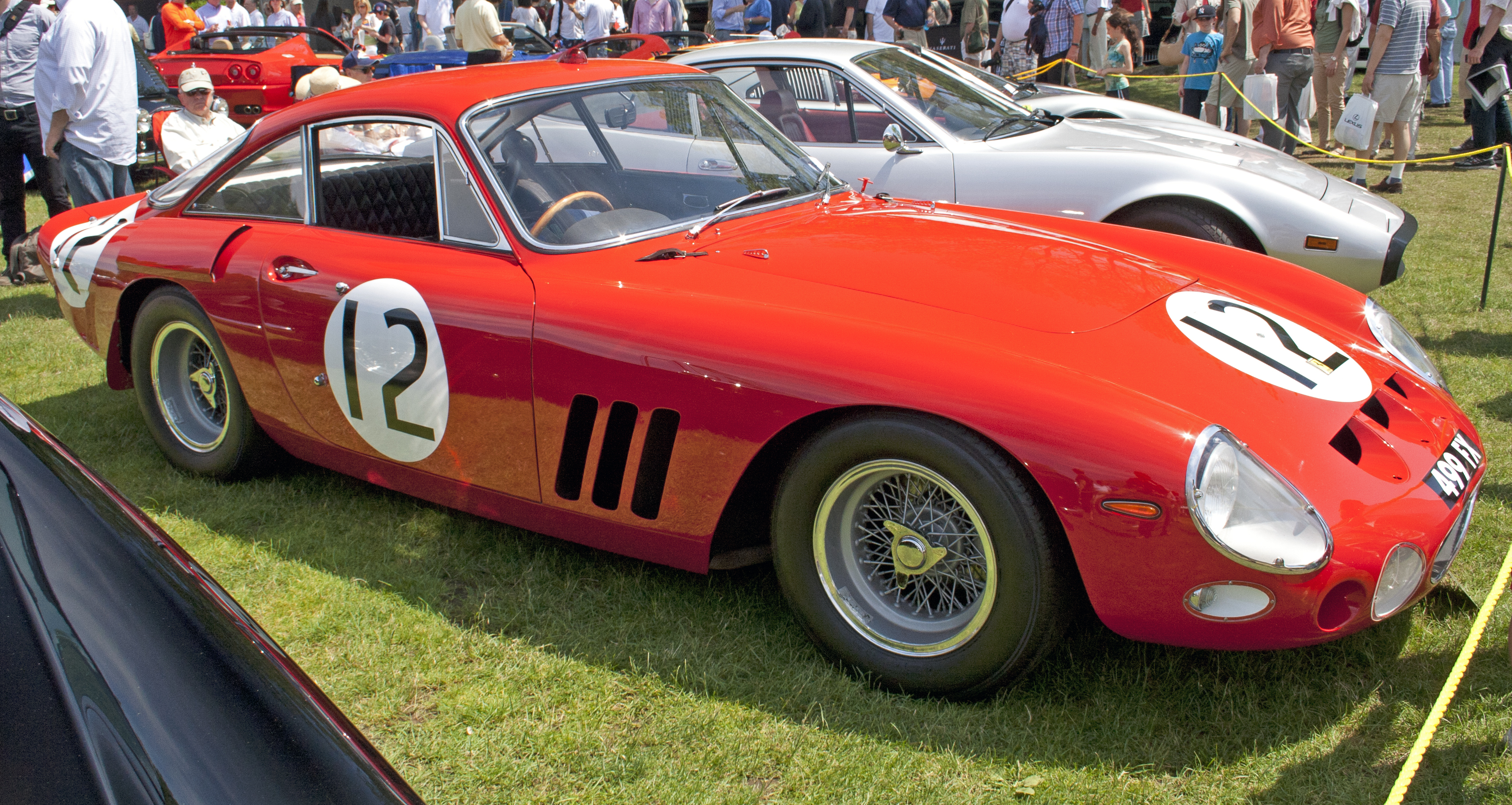 1962 Ferrari 330 LM Berlinetta at the 2012 Greenwich Concours d'Elegance.